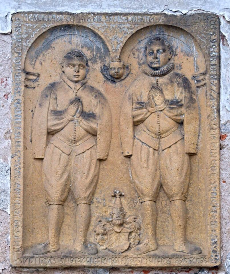 Old tomb memorial slabs of our family Schierer von Waldhaimb zu Falknov mostly 15th century in Bohemia.